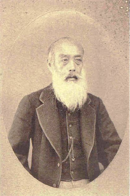 Marquess Kuroda Nagahiro (黒田 長溥, March 1, 1811 – March 7, 1887) was a Japanese daimyo of the late Edo period, who ruled the Fukuoka Domain.